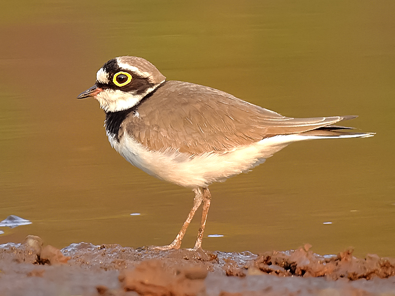 Little ringed plover (Charadrius dubius) Photograph by Shantanu Kuveskar. Location : Mangaon, Raigad, Maharashtra, India